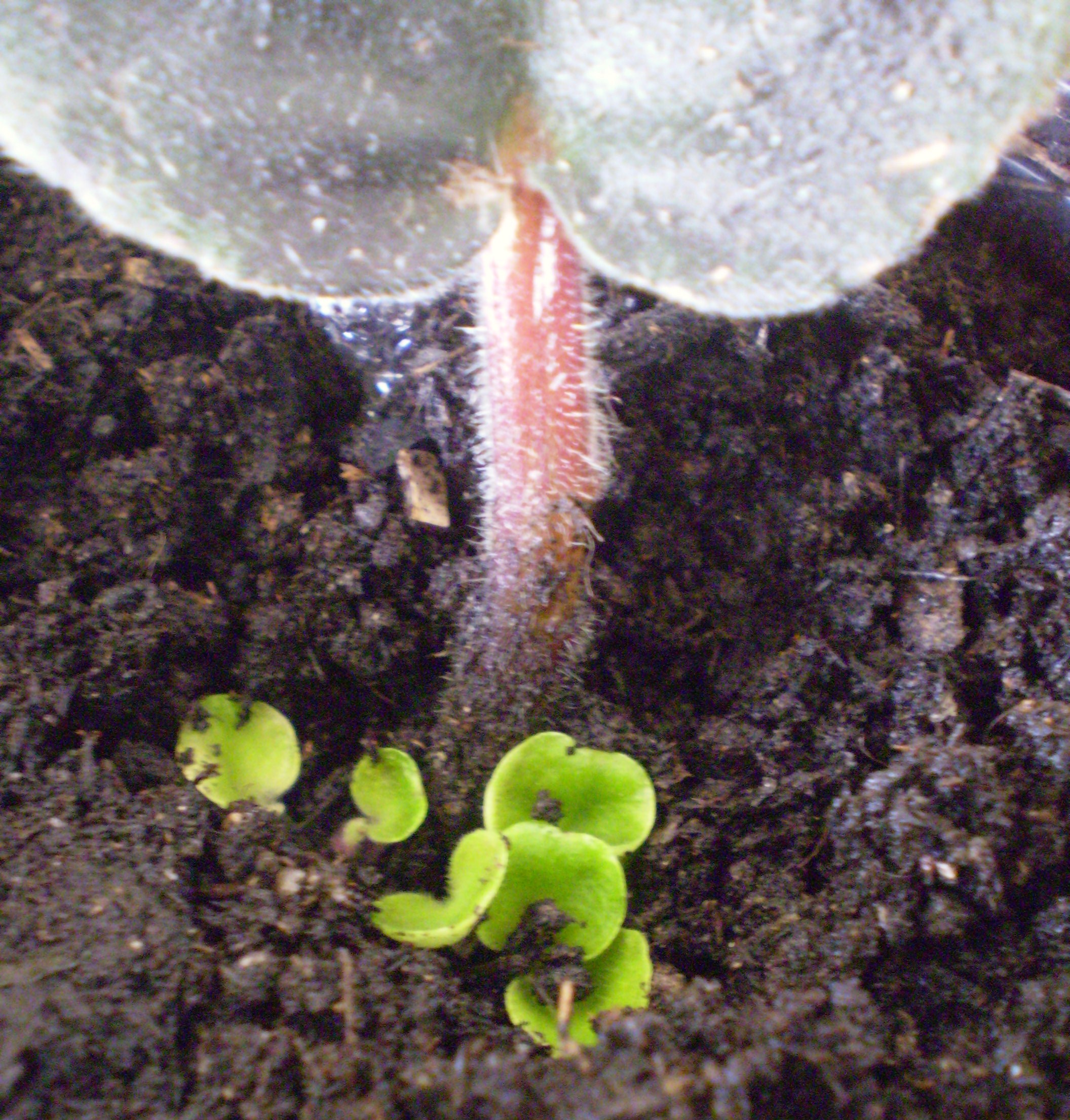 A wonderful Saintpaulia scion budding!! :D